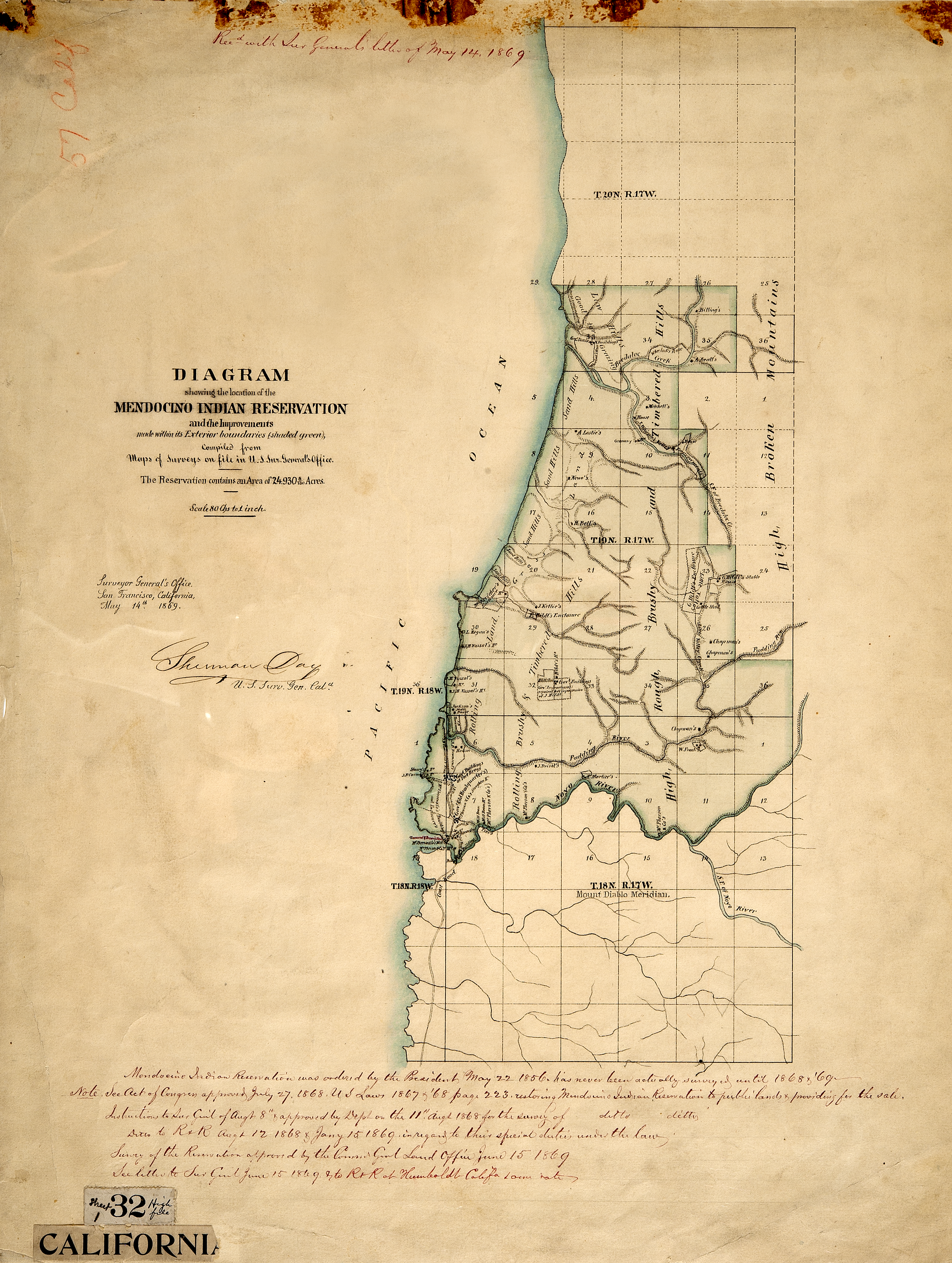 This map was released in 1869. It represents a land survey of the Mendocino Indian Reservation which was in operation from 1856 through 1864, and was officially closed in 1866. The reservations headquarters and it's onsite military fort were located on what is now the town of Fort Bragg, California. Unlike many other reservations, the ownership of this land was retained by the federal government. In 1869 lands were put up for sale, and sold off to the (non- Indian) public for $1.25 an acre.